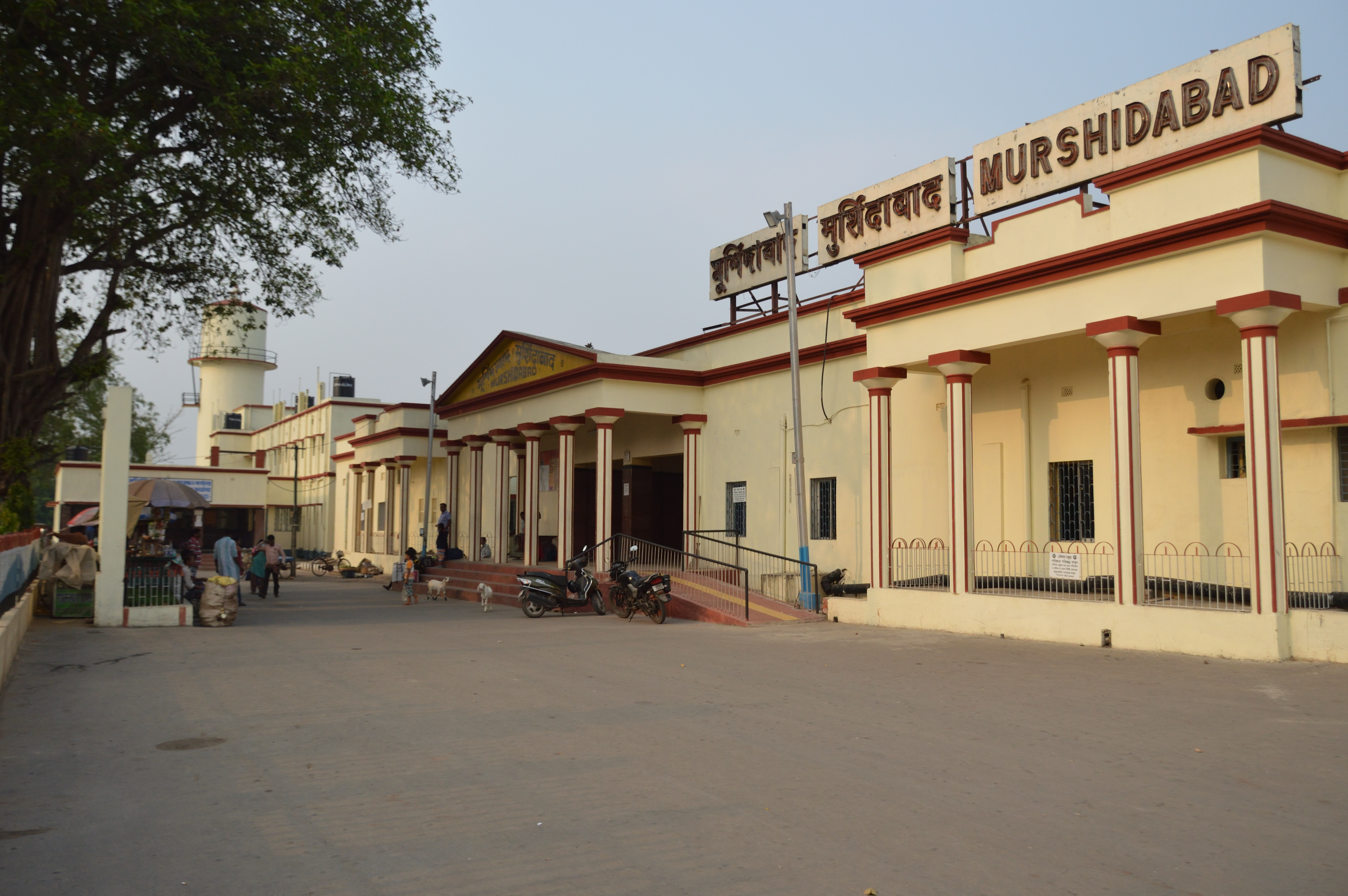 This photograph was taken in Murshidabad.